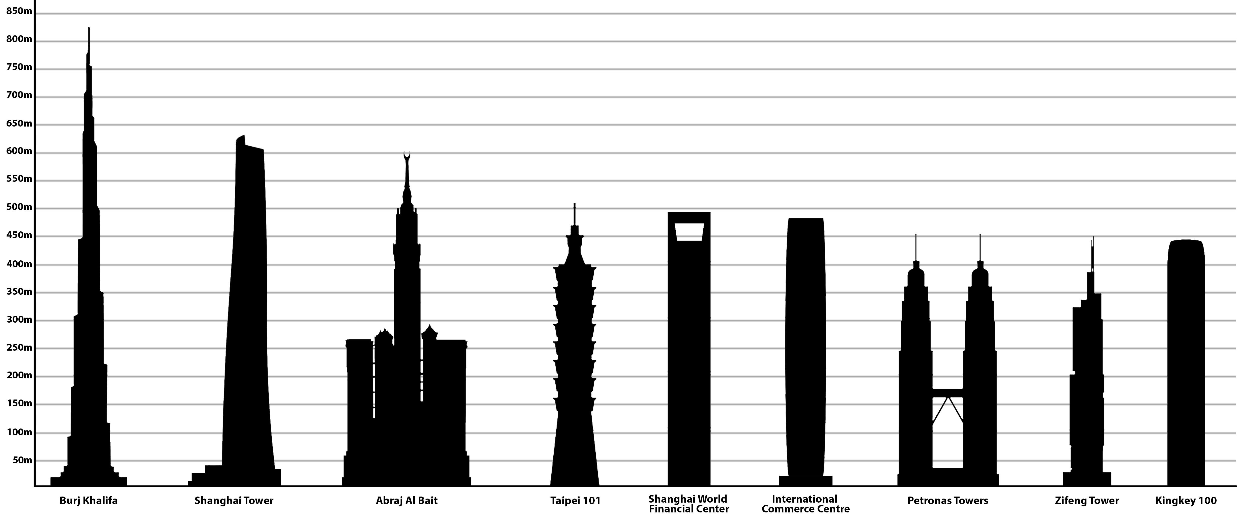 Tallest buildings in Asia in 2014.